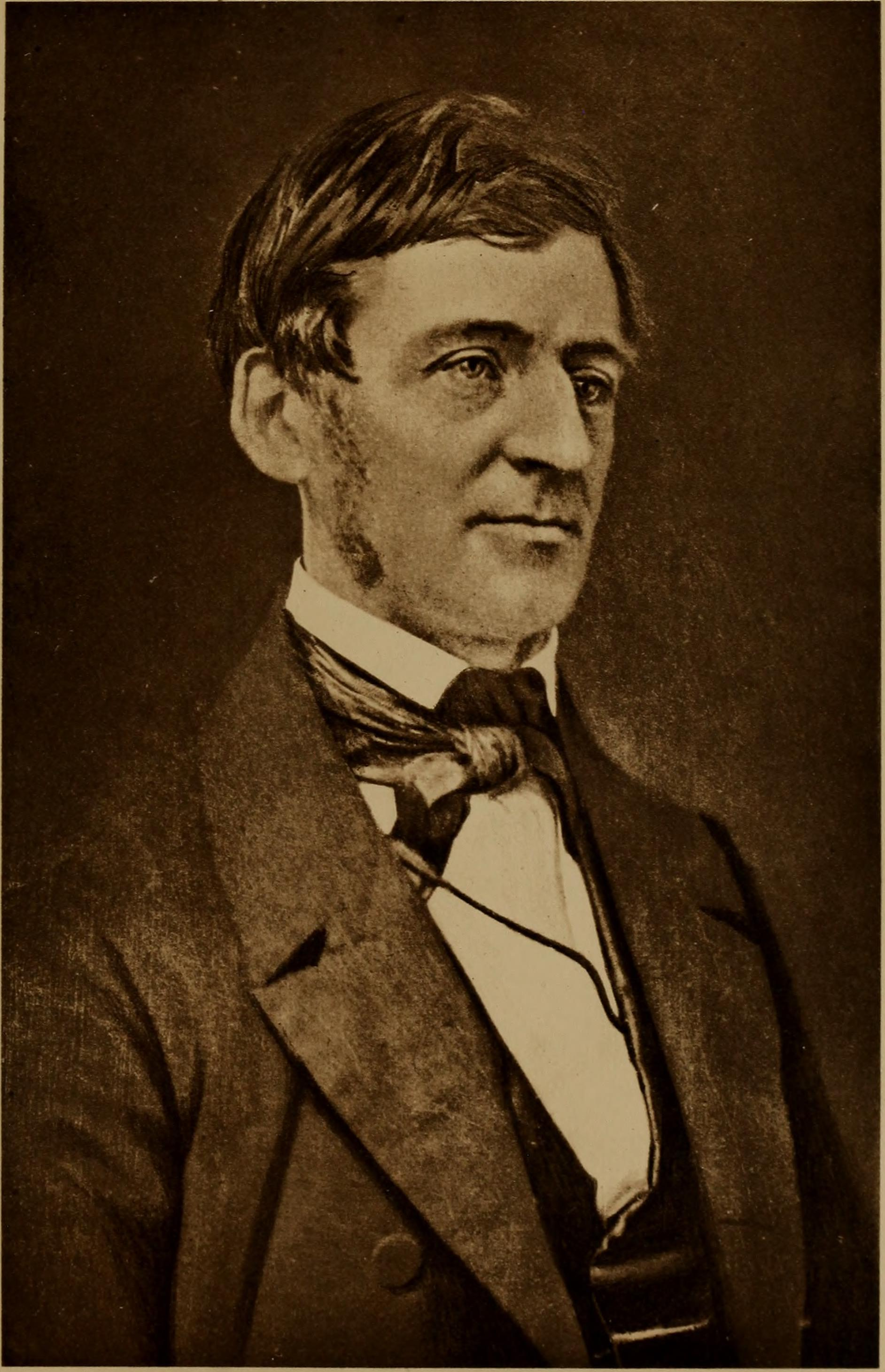 Title: Emerson, poet and thinker Year: 1904 (1900s) Authors: Cary, Elisabeth Luther, 1867-1936 Armstrong, Margaret, 1867-1944, binding designer Margaret Armstrong Binding Collection (Library of Congress) DLC Subjects: Emerson, Ralph Waldo, 1803-1882 Authors, American Publisher: New York : G.P. Putnam's Sons : Knickerbocker Press Text Appearing Before Image: £mei . f IM C Ralph IValdo Emerson, From a phoiograph taken in 1847. ,-..1 .^, len in *^ st an ^.a^iv-.ive have beer ••- -v-^till betr: •nllpr t^ Text Appearing After Image: Dr. Holmes has vividly depicted his mode of exhibit-ing mirth: When he laughed it was under protest,as it were, with closed doors, his mouth shut, so thatthe explosion had to seek another respiratory channel,and found its way out quietly, while his eyebrows,and nostrils and all his features betrayed theground swell,as Prof. Thayer happily called it, ofthe half-suppressed convulsion.^ From the experiences of his youth Emerson wasable to deduce a philosophy of training for youngpeople singularly free from impracticability, yet highlyimaginative and far-sighted. Books always areneeded for purposes of culture, he holds, but booksare good only as far as a boy is ready for them.* He hates the grammar and Gradus, and loves guns,fishing-rods, horses, and boats. Well, the boy isright and you are not fit to direct his bringing-upif your theory leaves out his gymnastic training.Archery, cricket, gun and fishing-rod, horse andboat, are all educators, liberalisers; and so are danc-ing, dress, and